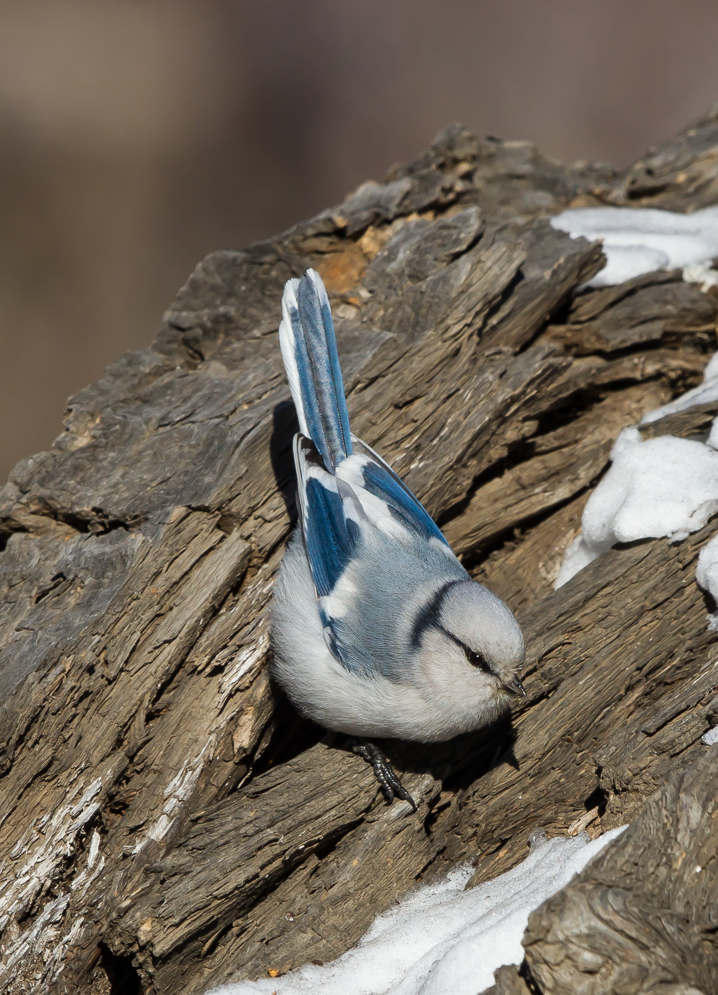 Azure Tit Cyanistes cyanus, Songino, western Mongolia